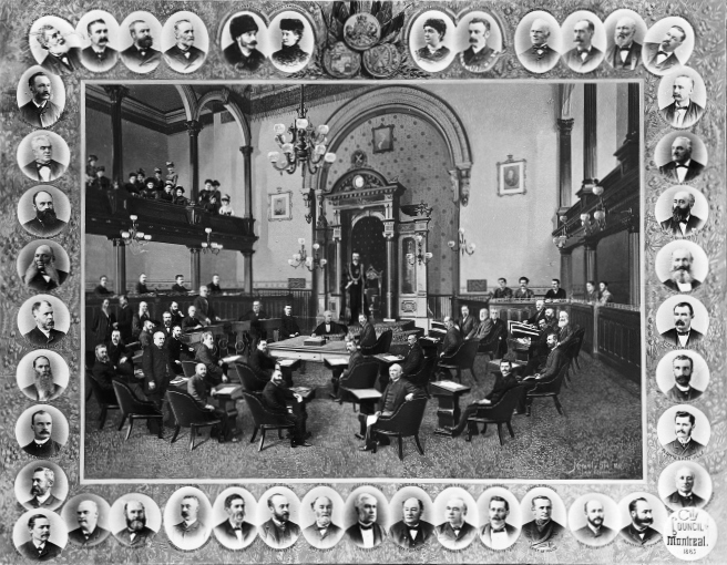 Composite photograph, City Council of Montreal, QC, composite, 1885, copied 1887, Wm. Notman & Son, Silver salts on glass - Gelatin dry plate process - 20 x 25 cm